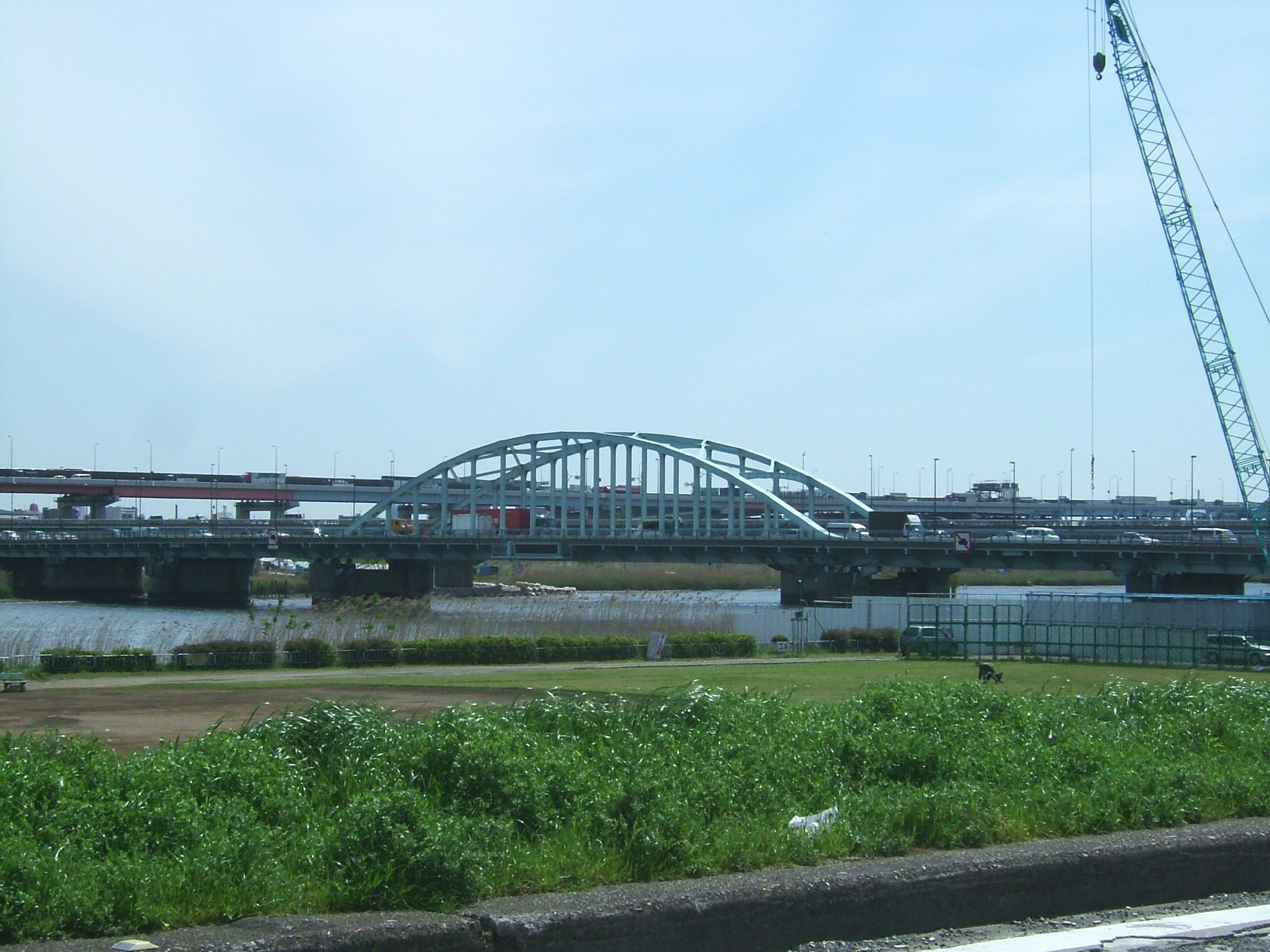 The Yotsugi Bridge(Japanese National Route 6)